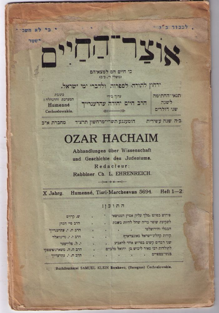 Otzar Chaim Rabbinic Journal 1934